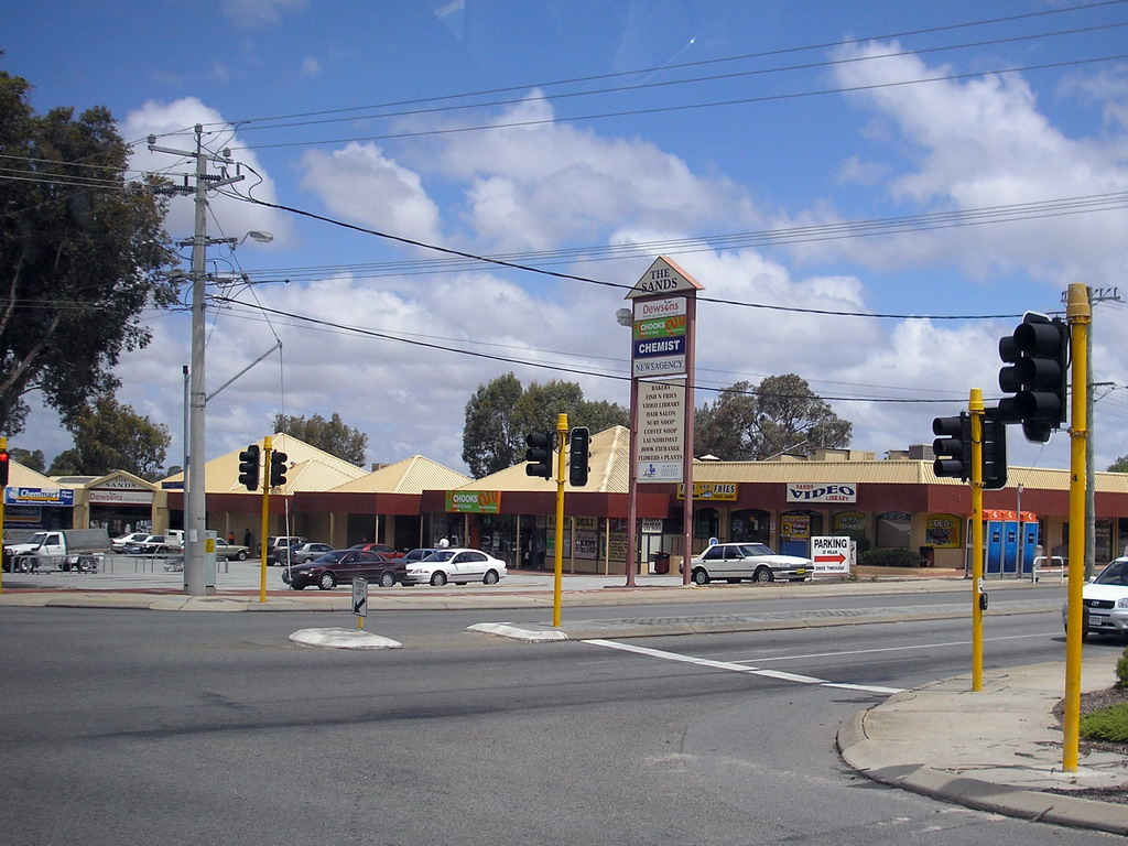 Sands Centre, Mandurah Terrace, Mandurah, Western Australia